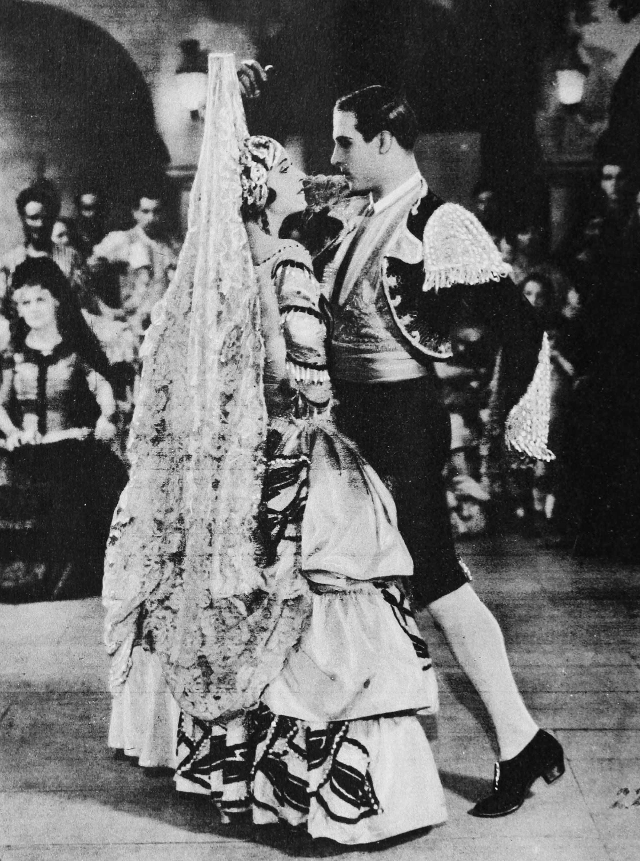 Helena D'Algy and Rudolph Valentino in A Sainted Devil, a lost film